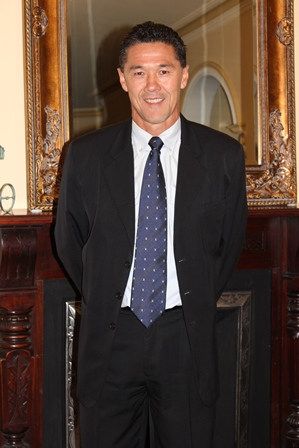 profile picture